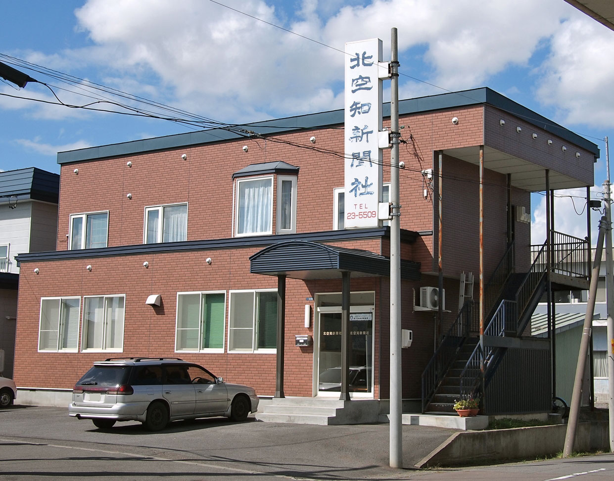 Kitasorachi Newspaper Publishing, Fukagawa, Hokkaido, Japan